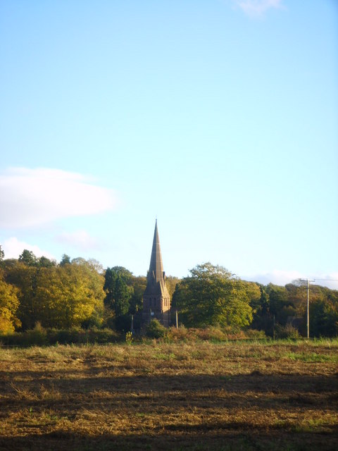 St Michael's and All Angels Church, Newport, near to Puleston, Telford And Wrekin, Great Britain.